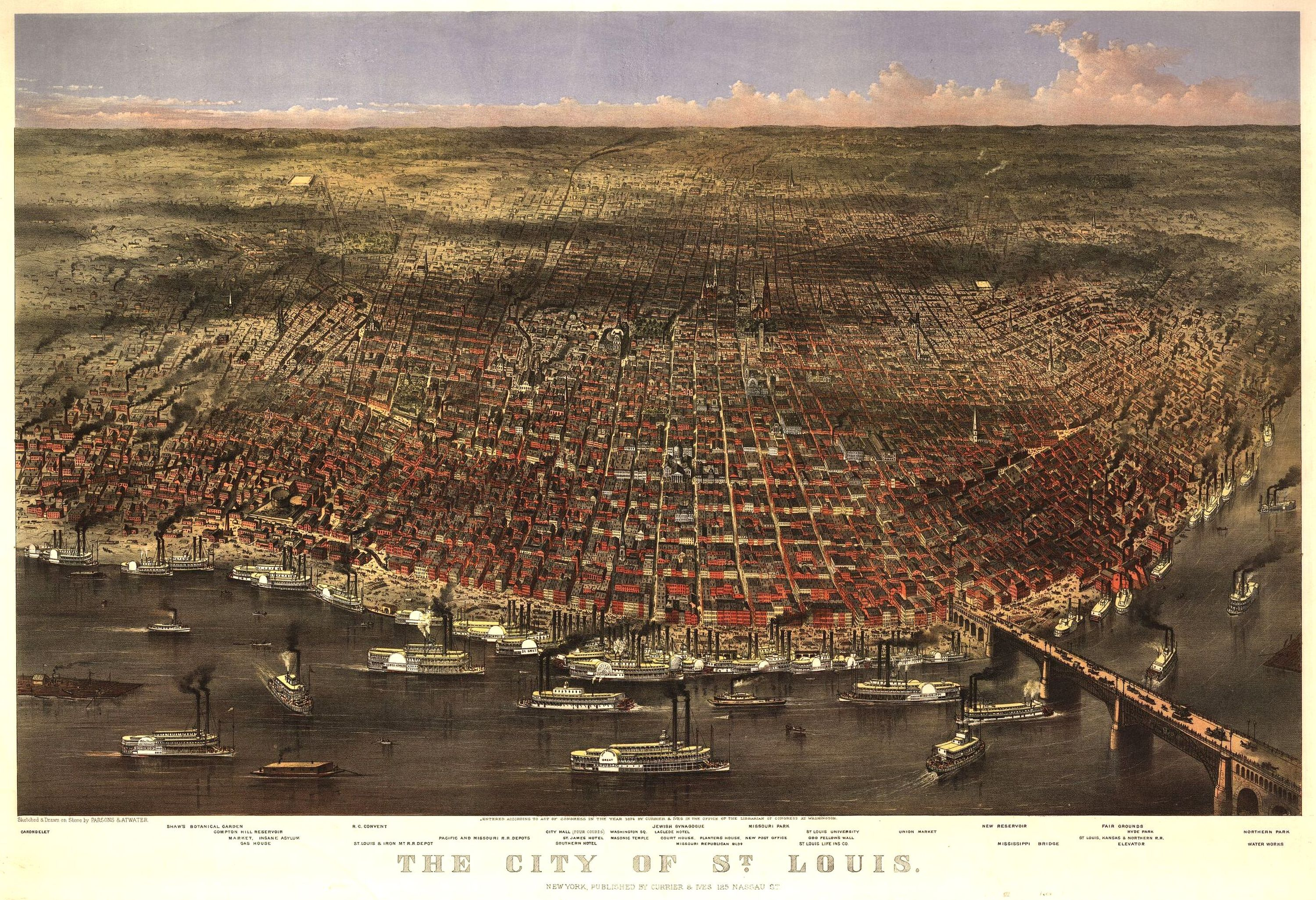 Currier & Ives image of the City of Saint Louis and Mississippi Riverfront in 1874